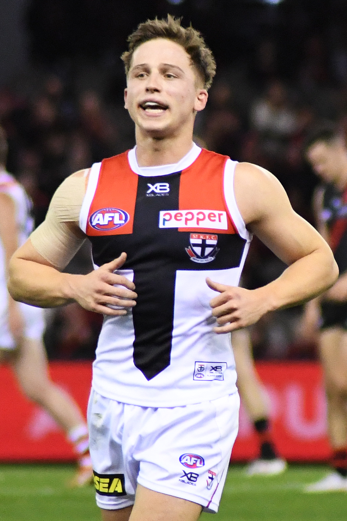 Jack Billings of St Kilda during the 2018 AFL round 21 match between Essendon and St Kilda at Etihad Stadium on Friday, 10 August 2018 in Melbourne, Victoria.